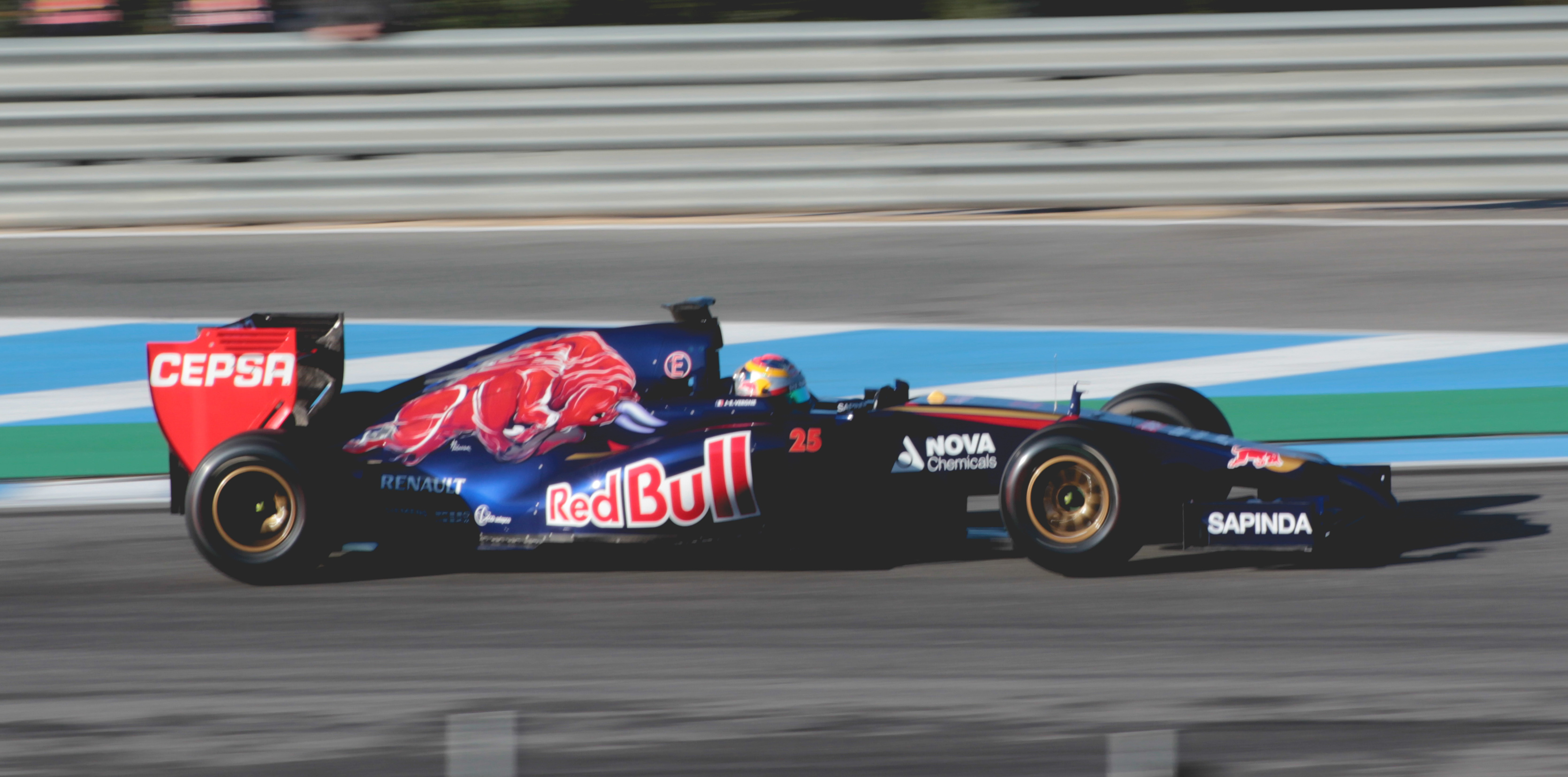 Jean-Éric Vergne (Toro Rosso).